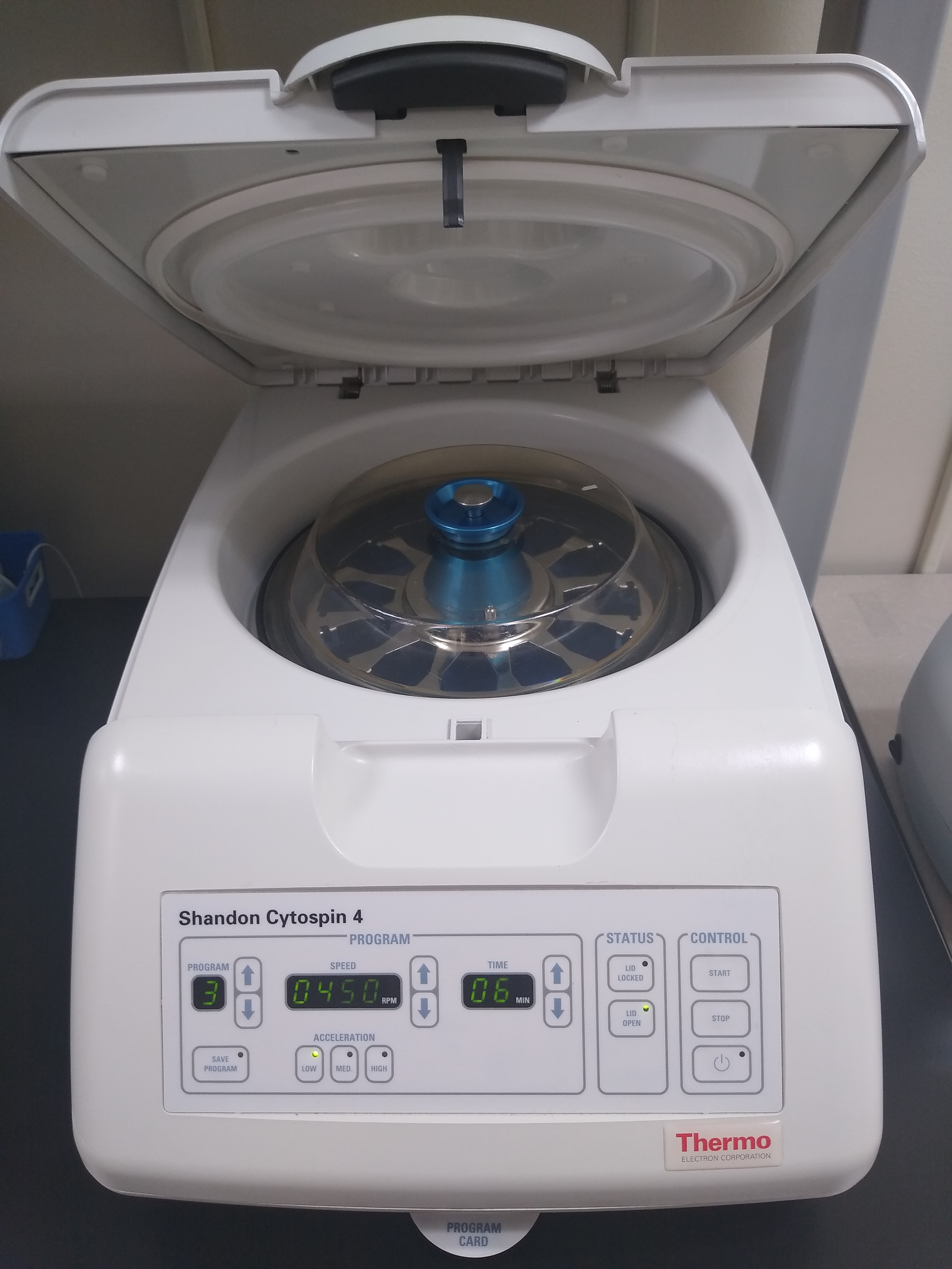 A cytocentrifuge used for preparing microscopic slides of fluids